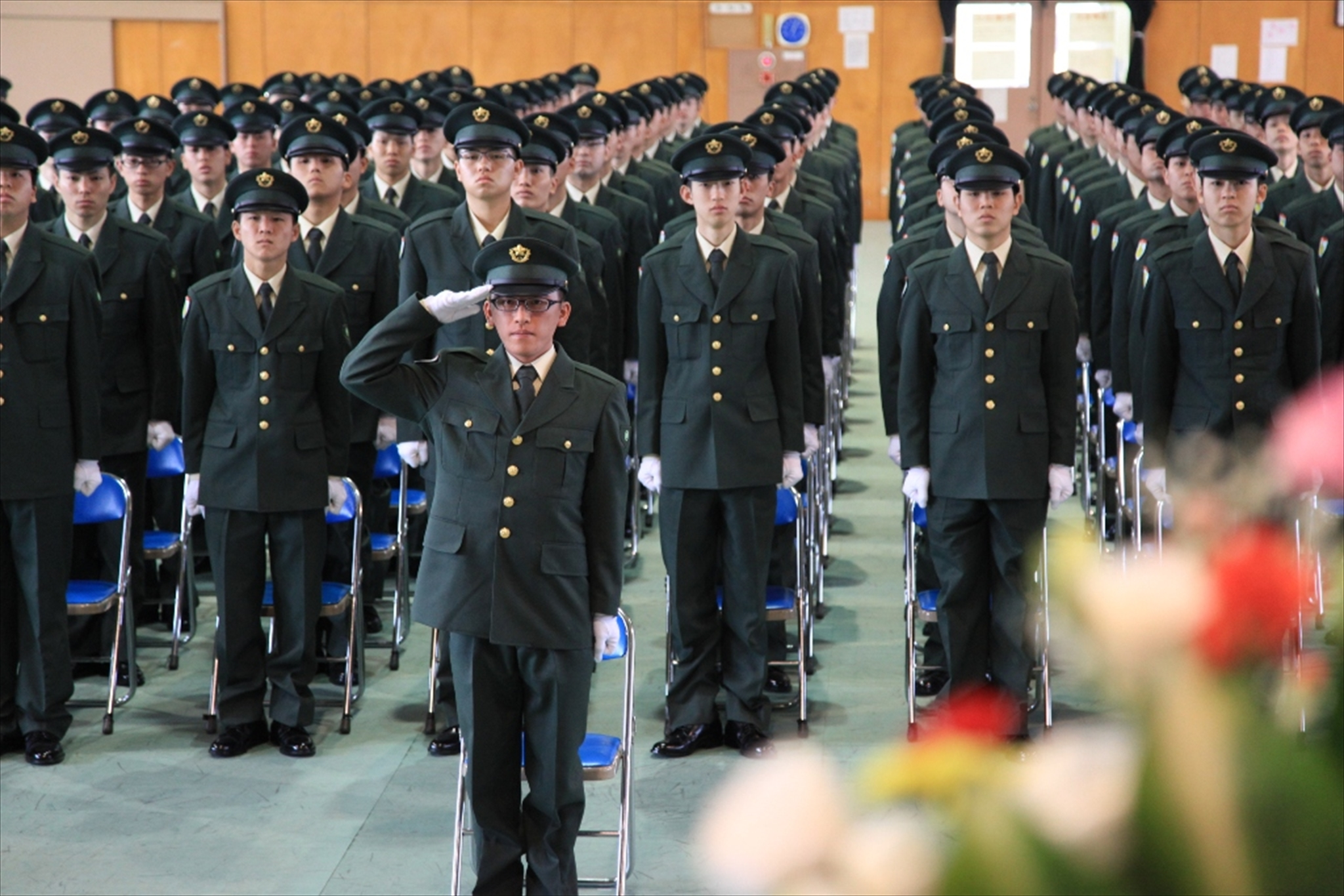 Title 自衛官候補生入隊式（福島）_R.jpg Album 教育訓練等 自衛官候補生入隊式（第４４普通科連隊・福島）